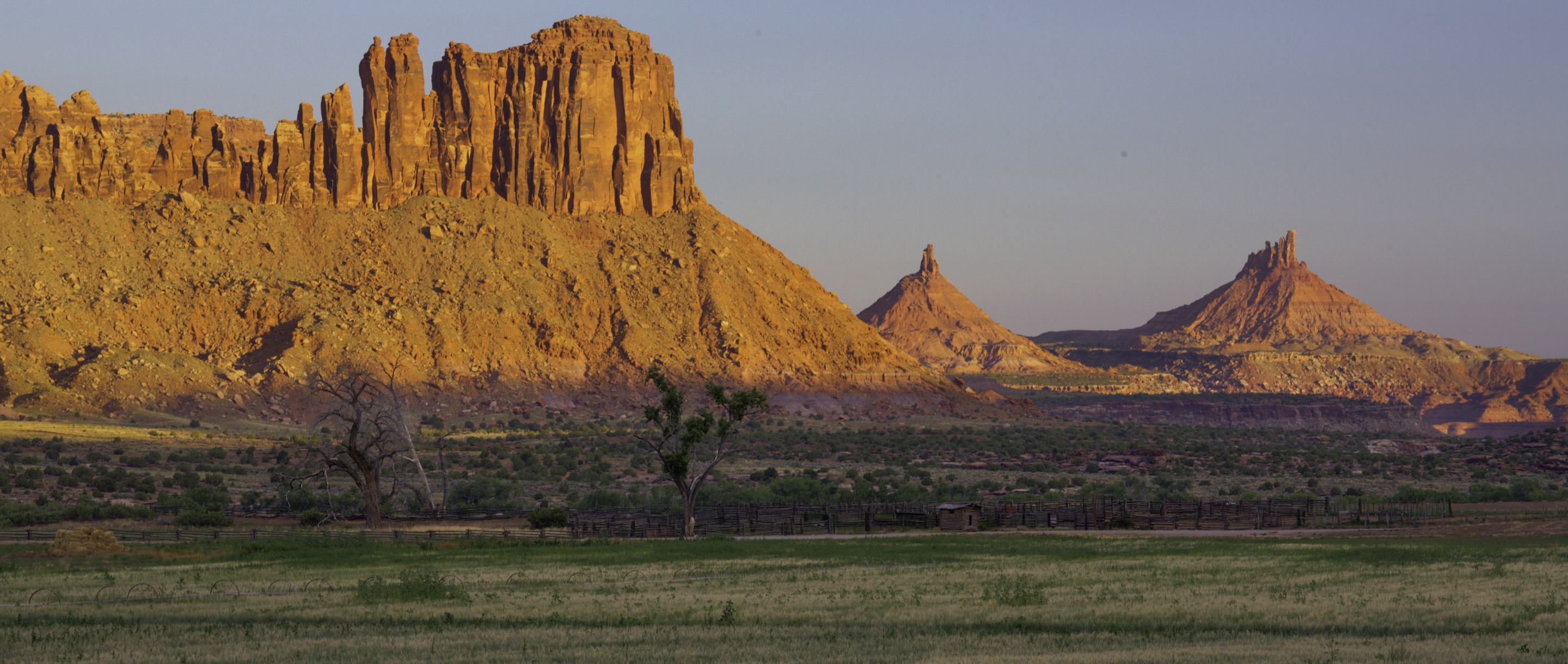 taken in Bears Ears National Monument